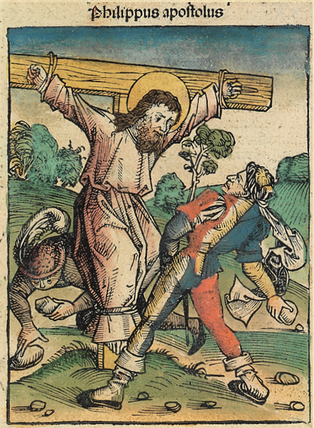 This is a part of a scan of an historical document: Title: Schedelsche Weltchronik or Nuremberg Chronicle